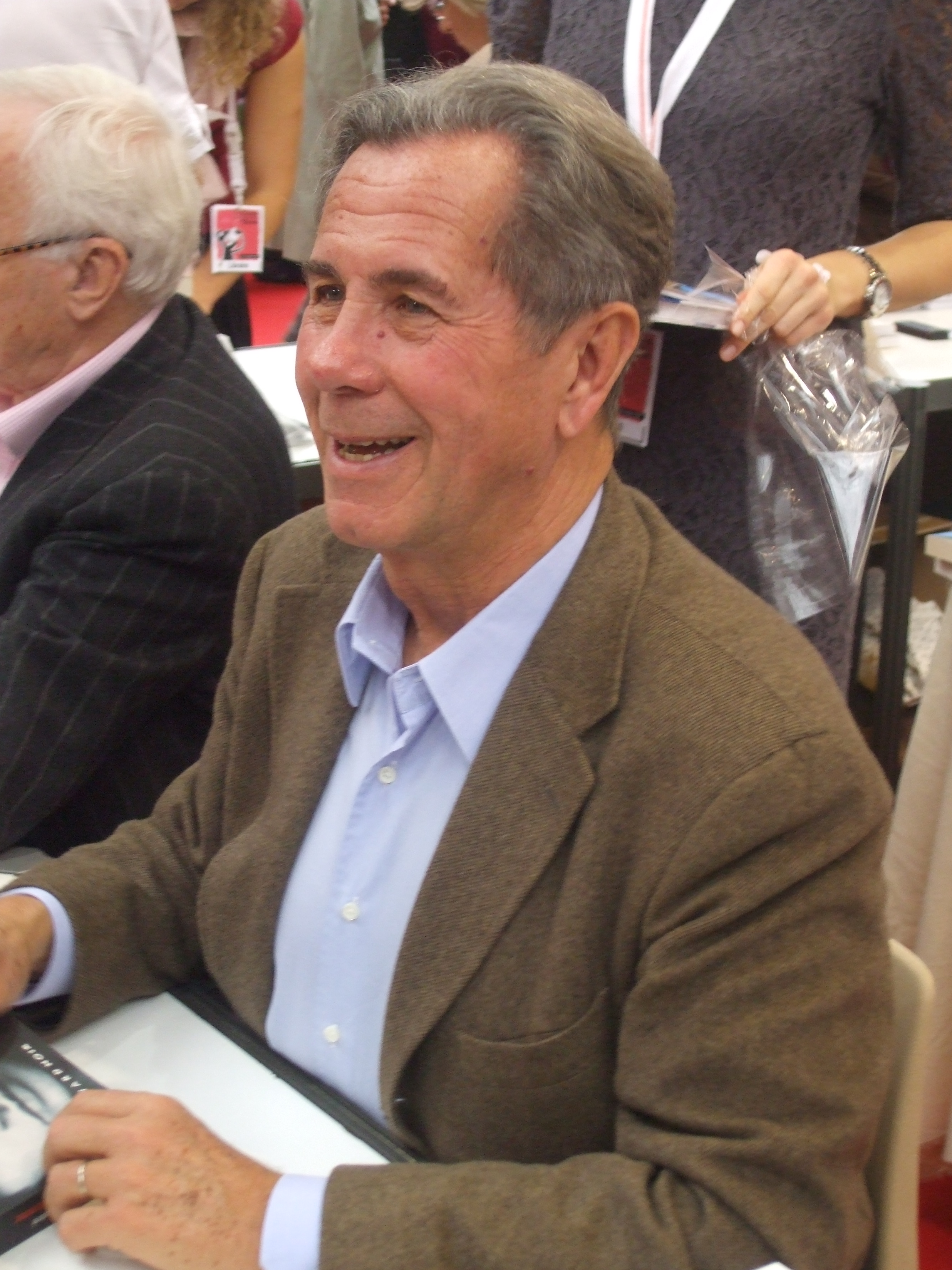 Jean-Louis Debré, french politician, Brive la Gaillarde book fair, France, 2010 11 06